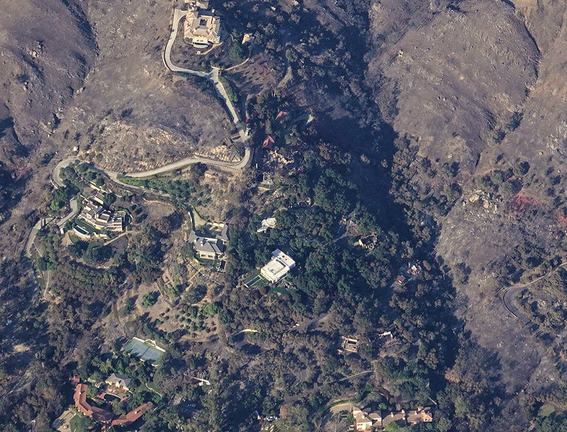 Aerial: Near the Southwestern edge of Thomas Fire in Santa Barbara County, CA on December 19, 2017. Where the Thomas Fire's spread toward the South encountered large homes built in the hills, it was mostly stopped though many were threatened and some were destroyed.